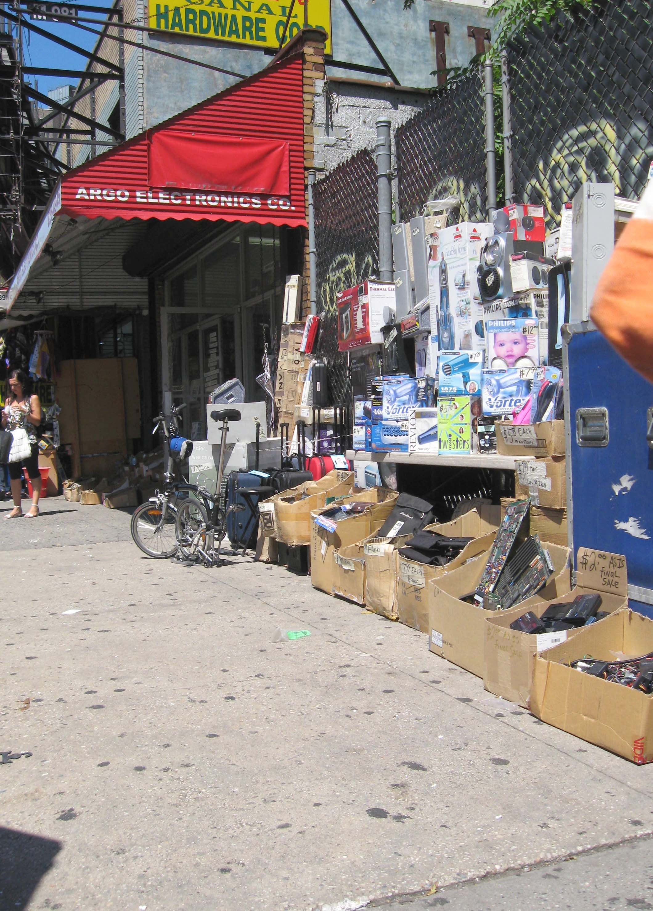 Looking northwest on working sidewalk sales bins of the remnant of Radio Row at 391 Canal Street, ZIP 10013 on the north side of Canal Street (Manhattan) east of 6th Avenue on a sunny midday.